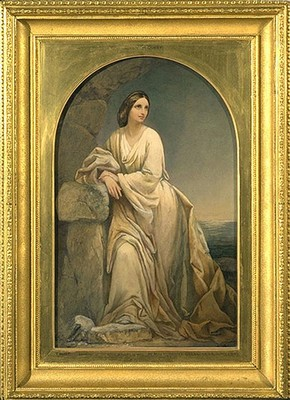 The Momentous Question, water-colour.